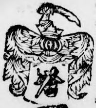 Pomian coat of arms by Jan Aleksander Gorczyn, 1653